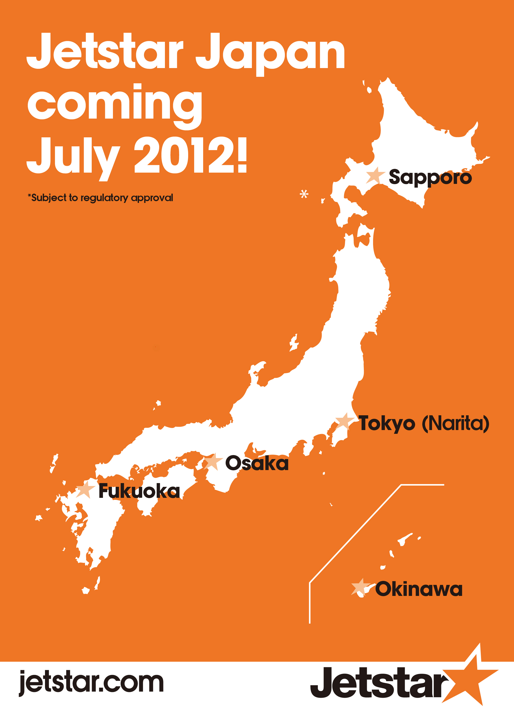 Jetstar Japan expects take to the skies ahead of schedule in July 2012, flying initially to five major Japanese cities.